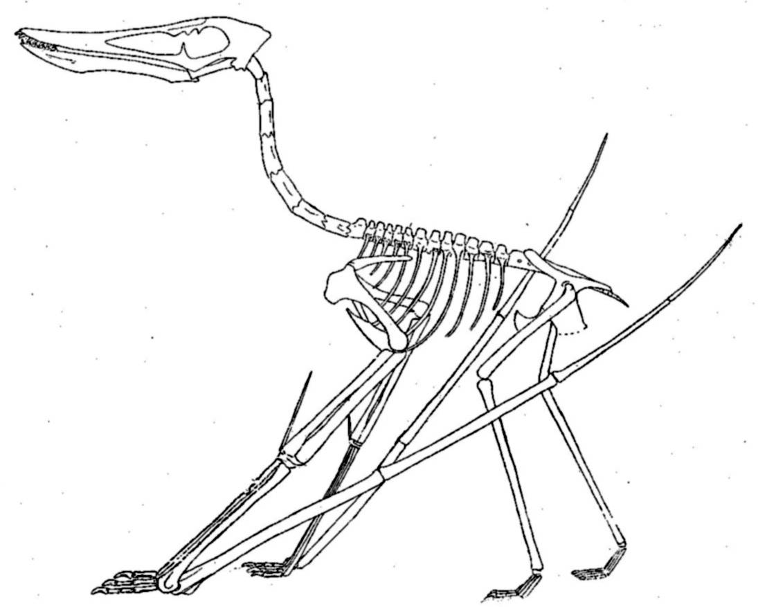 Cycnorhamphus suevicus Skeleton